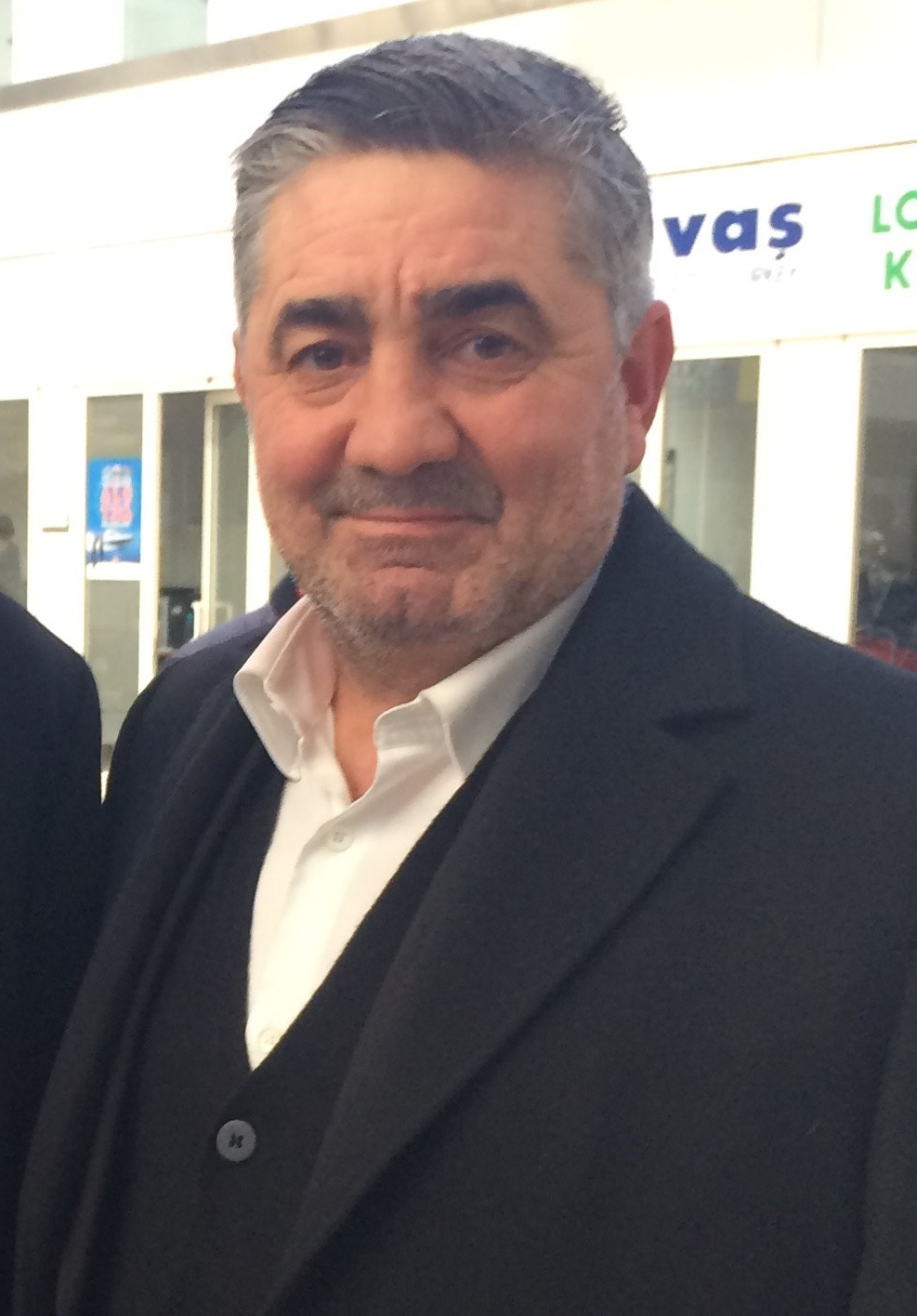 Rasim Kara & Mufit Erkasap